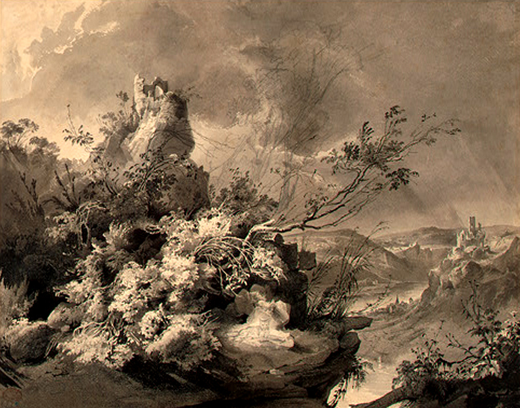 Ruined Towers Overlooking the Rhine